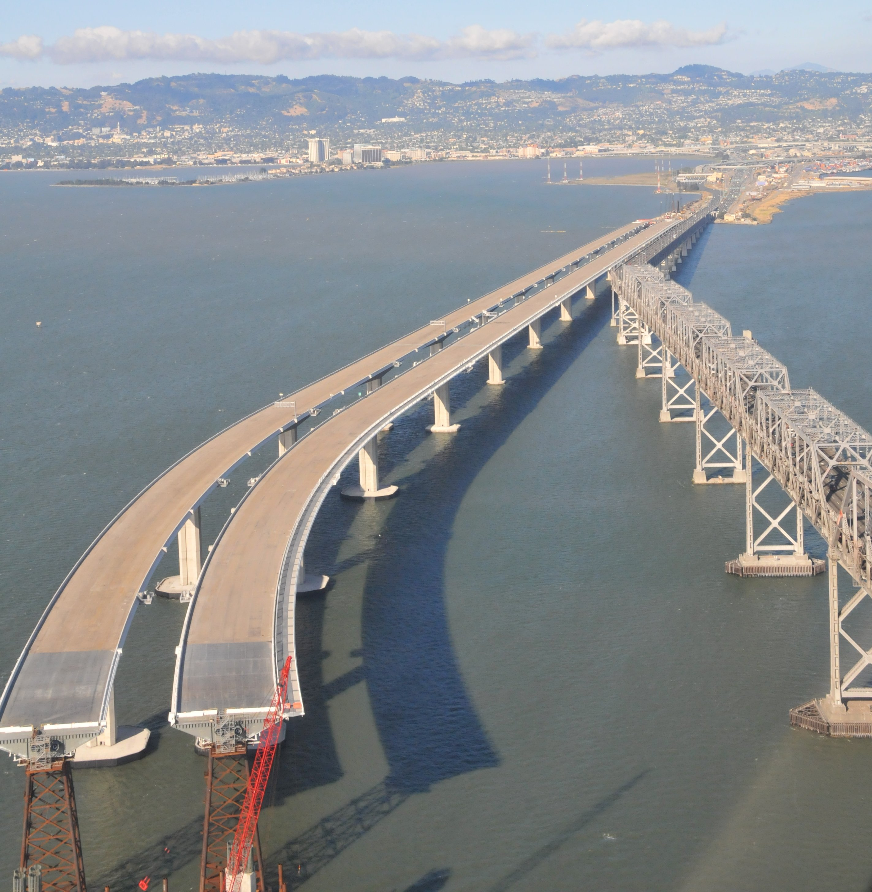 New Eastern span of the San Francisco-Oakland Bay Bridge as of 29 May 2008.